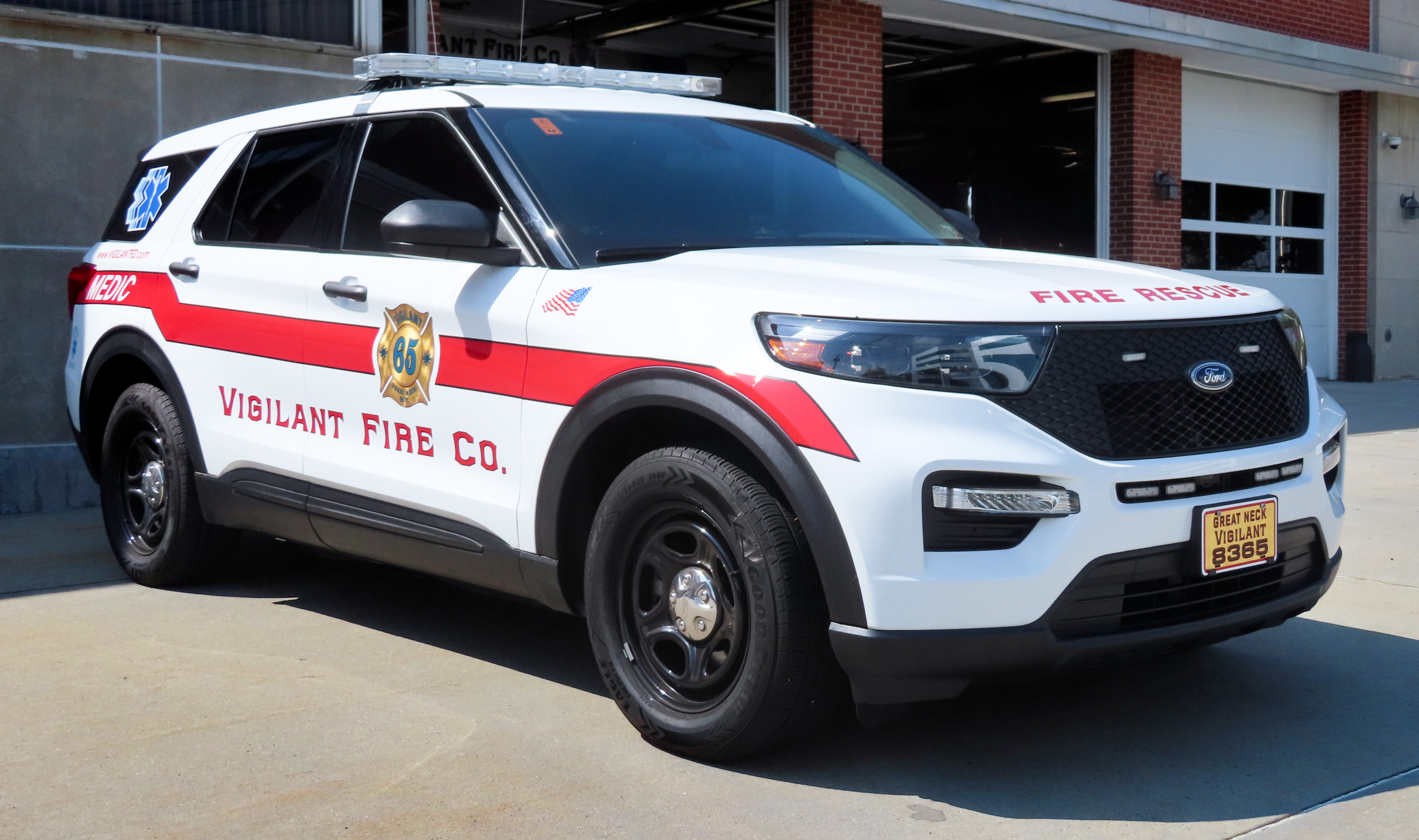 2020 Ford Police Interceptor Utility used by Vigilante Fire Co. (Great Neck, NY) as a medic unit, photographed in Great Neck, New York, USA